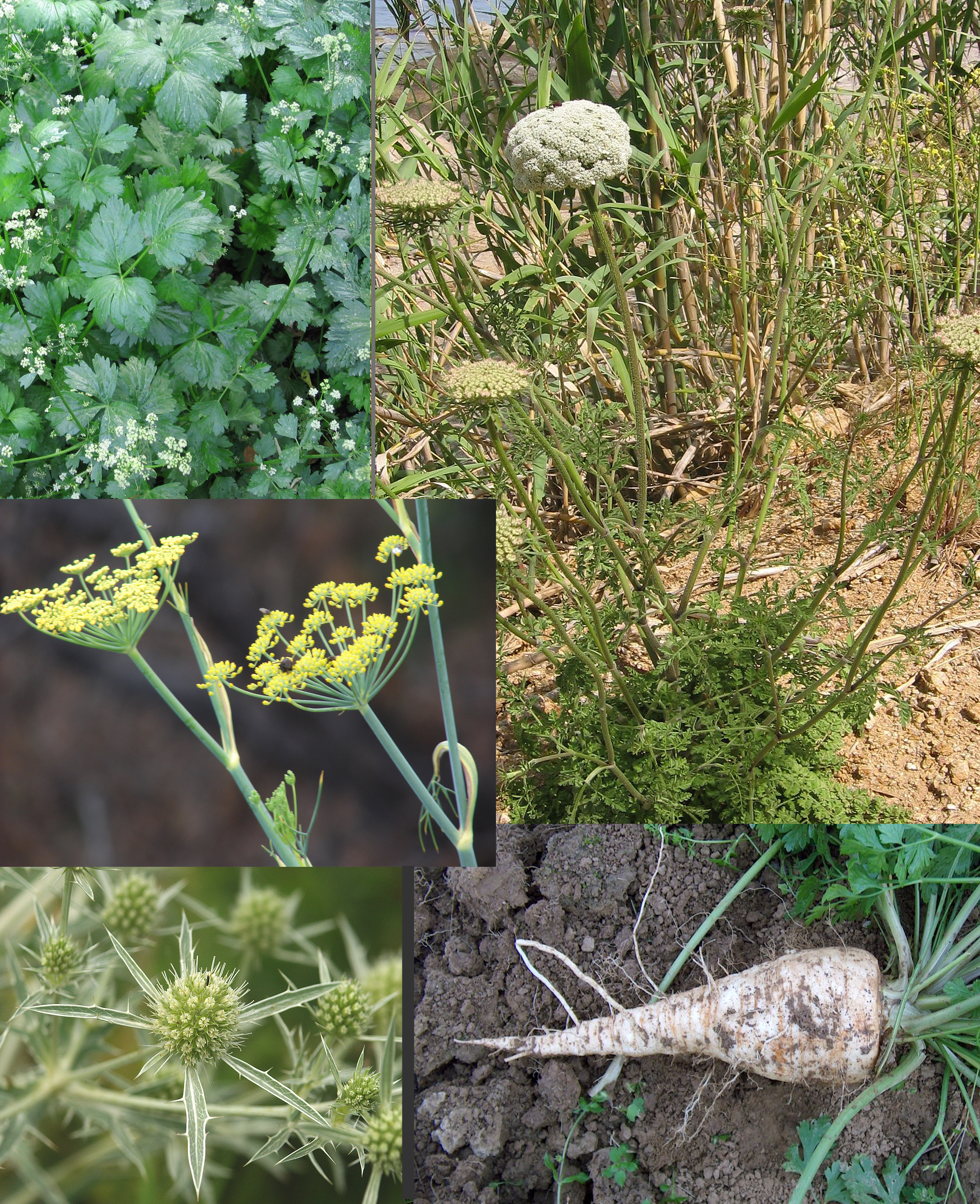 Umbelliferae: Apium leaves and tiny inflorescences, Daucus habit, Foeniculum inflorescences, Eryngium inflorescences, Petroselinum root.